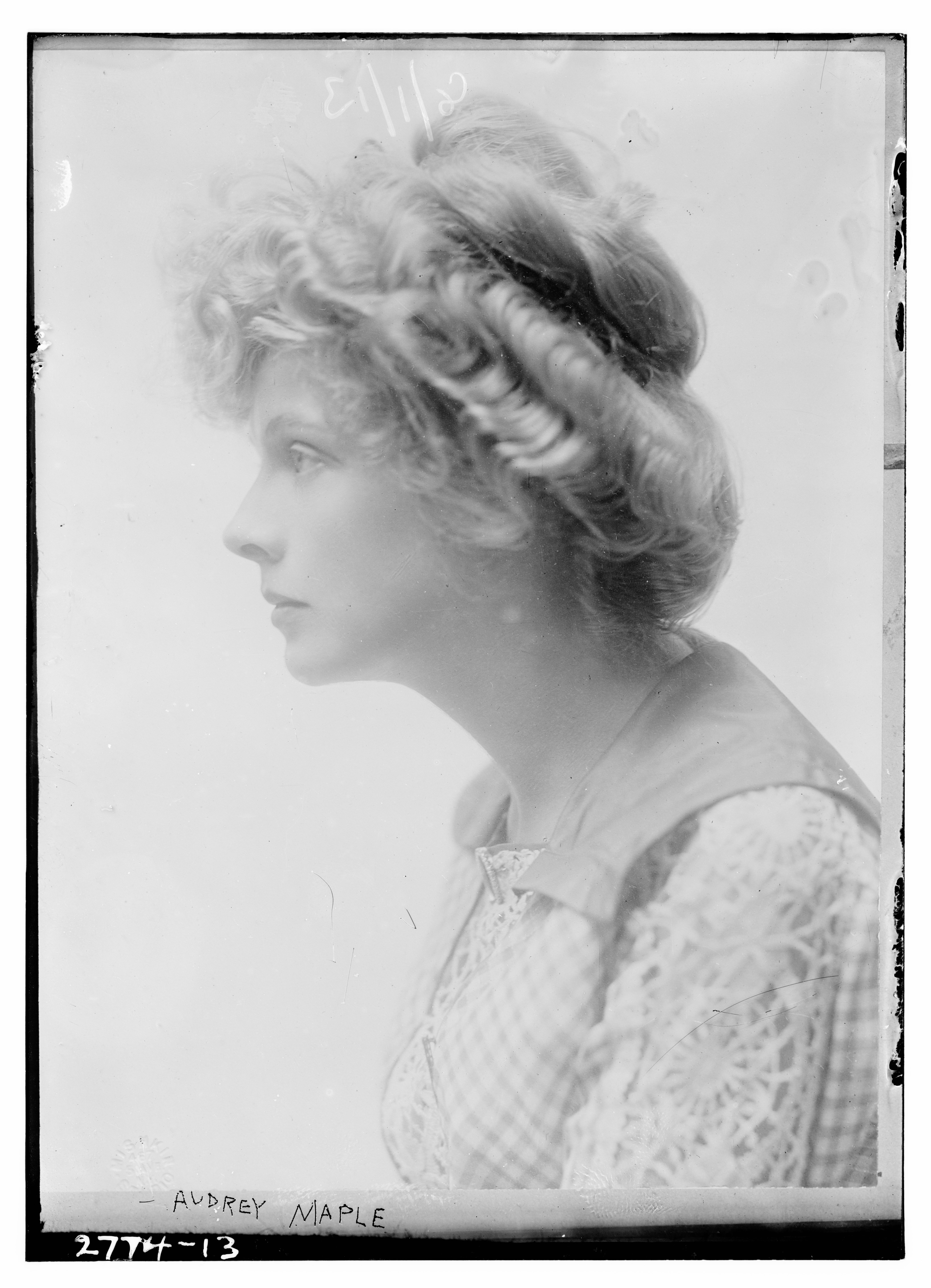 Title: Audrey Maple Abstract/medium: 1 negative : glass ; 5 x 7 in. or smaller.